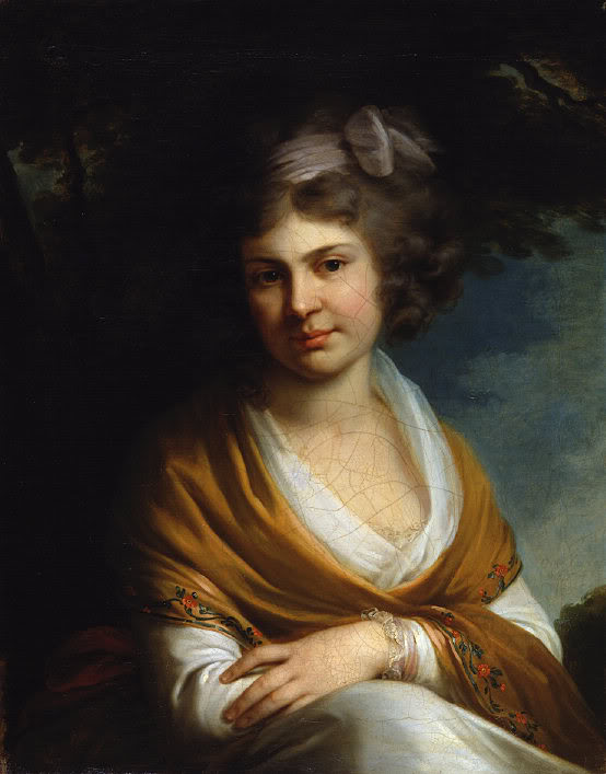 Portrait of Countess Natalia Suvorova (1775-1844), Daughter of Alexander Suvorov.